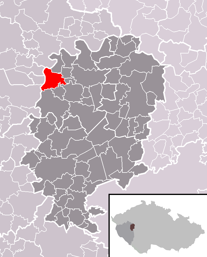 Location of Němčovice municipality within Rokycany District and within identical administrative area of Rokycany as a Municipality with Extended Competence.